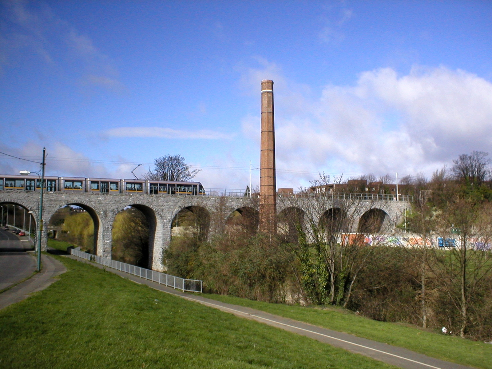 original digital image Suckindiesel 22:59, 2 April 2007 (UTC)